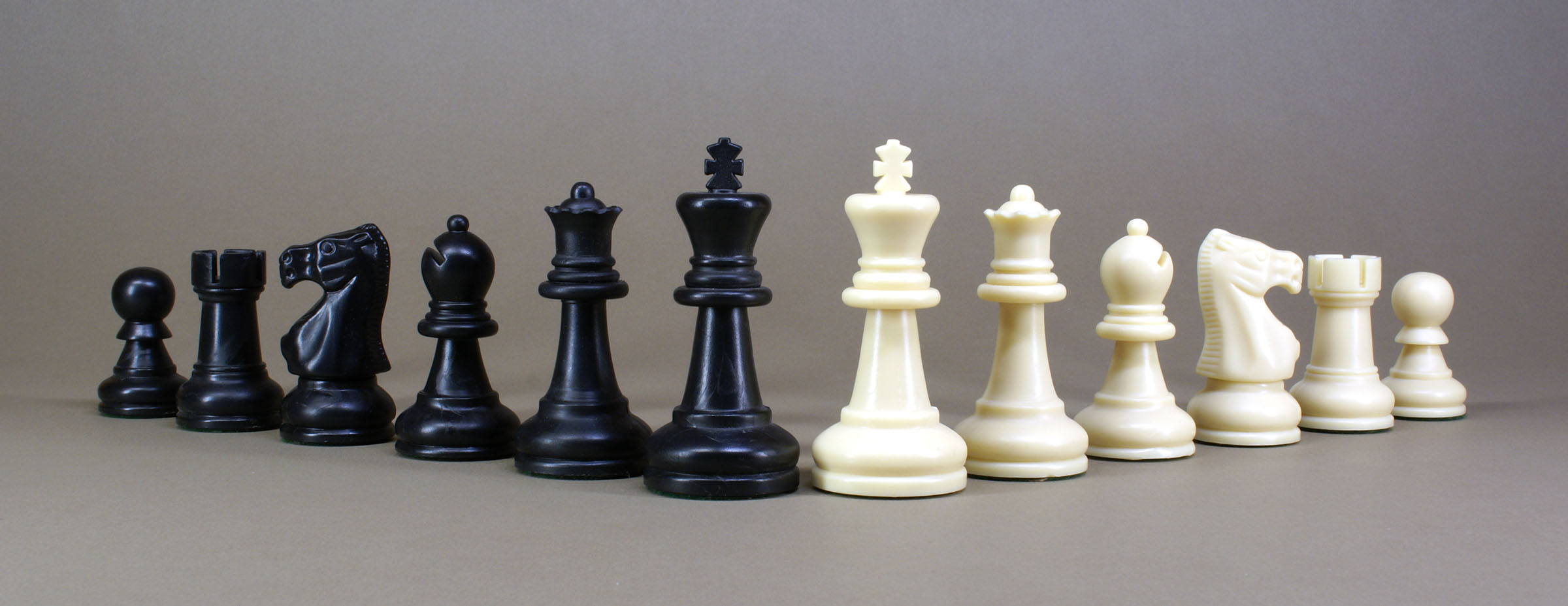 A typical chess set.